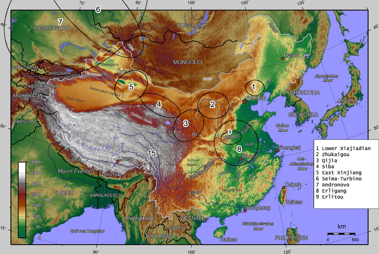 Map of the Neolithic to Bronze Age in North China and Eurasian steppe. Map built with the help of Li Liu and Xingcan Chen : The Archaeology of China : From the Late Paleolithic to the Early Bronze Age, Cambridge University Press 2012, pages 298 and 301.